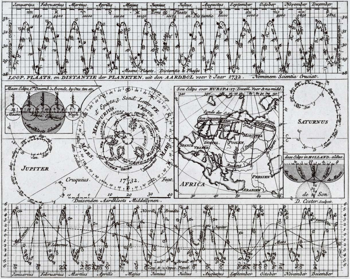 Diagram of the eclipse of 1732 by Nicolaas Kruik